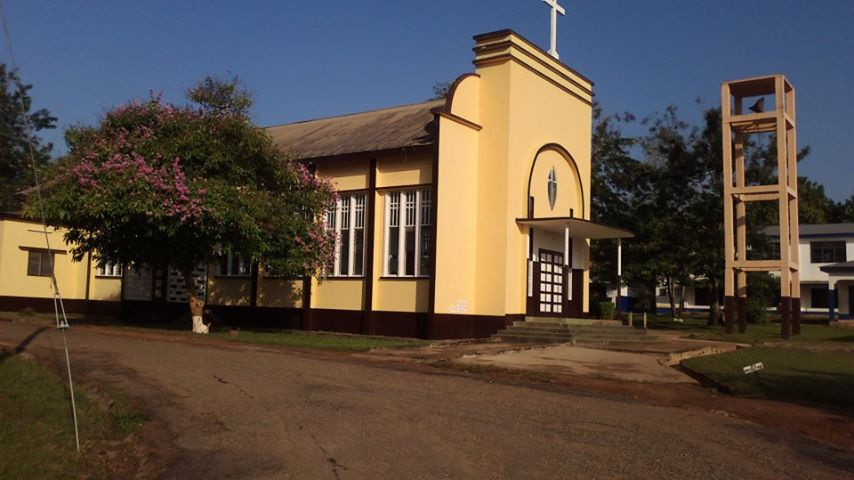 The monumental chapel of POJOSS